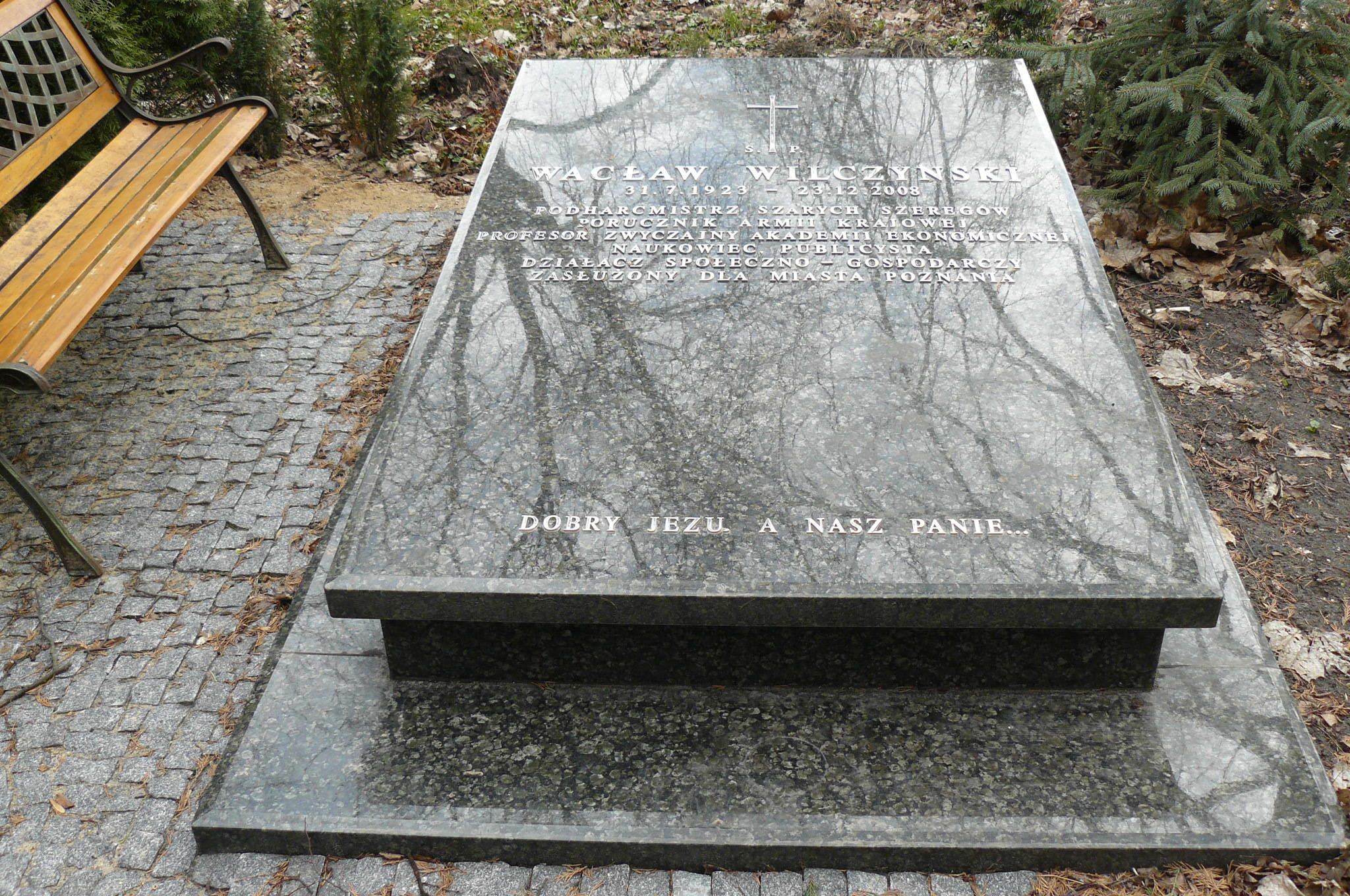 Waclaw Wilczynski Tomb, Poznan.